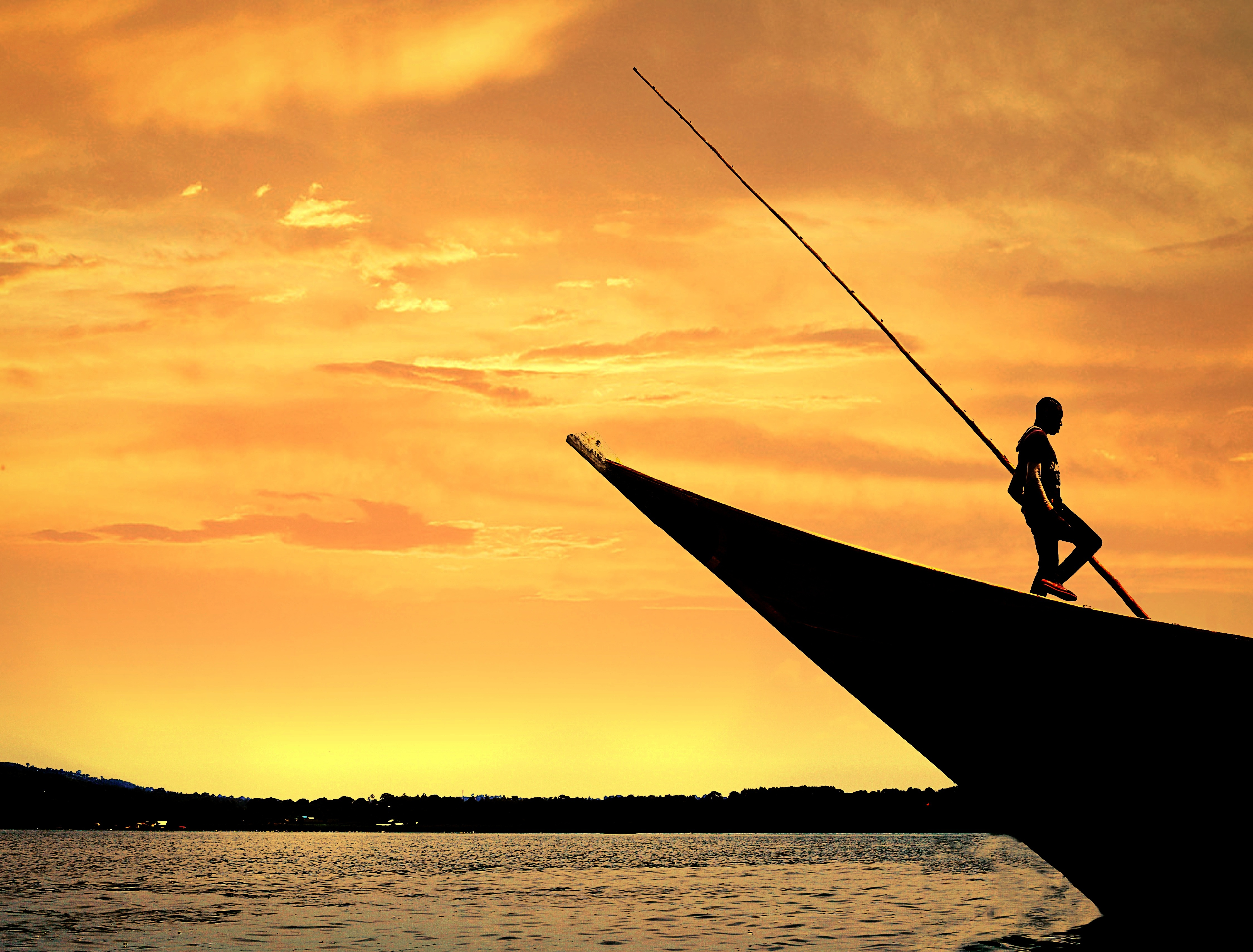 In jinja, a fisherman docks his boat. This is an image of "African people at work" from Uganda